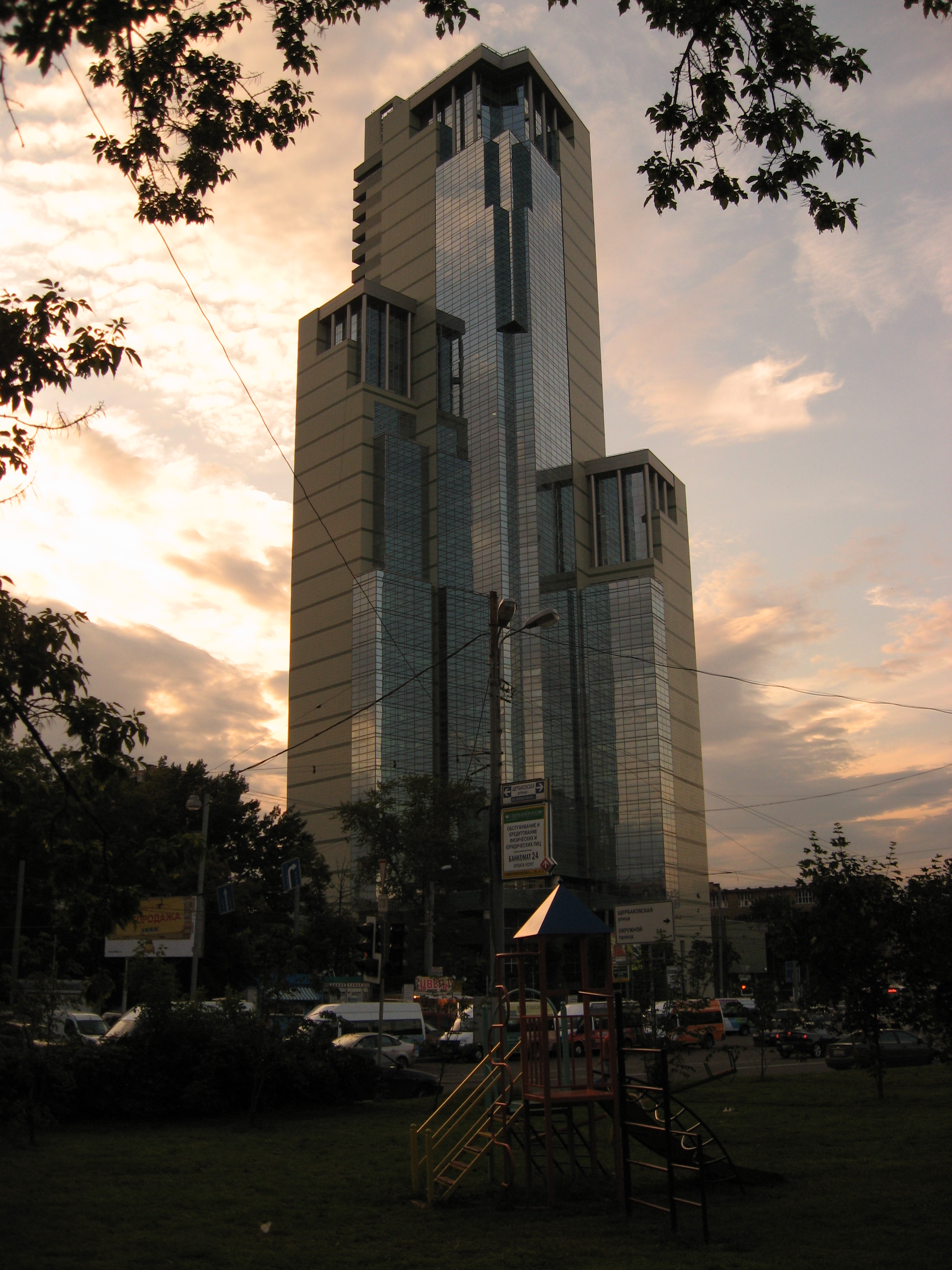 Skyscraper "Sokolinaya gora" in Moscow